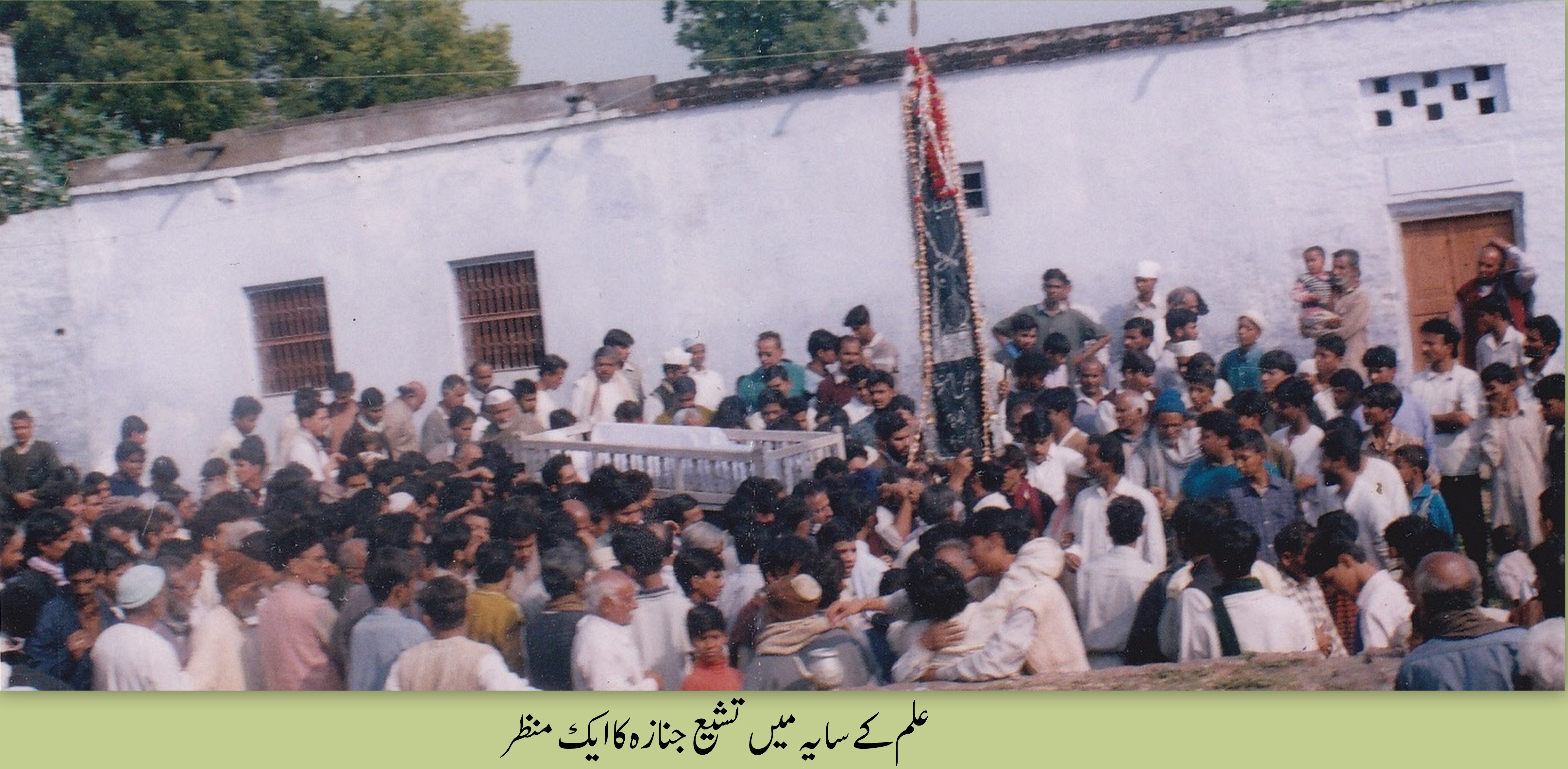 funeral ceremony of syed ali akhtar rizvi